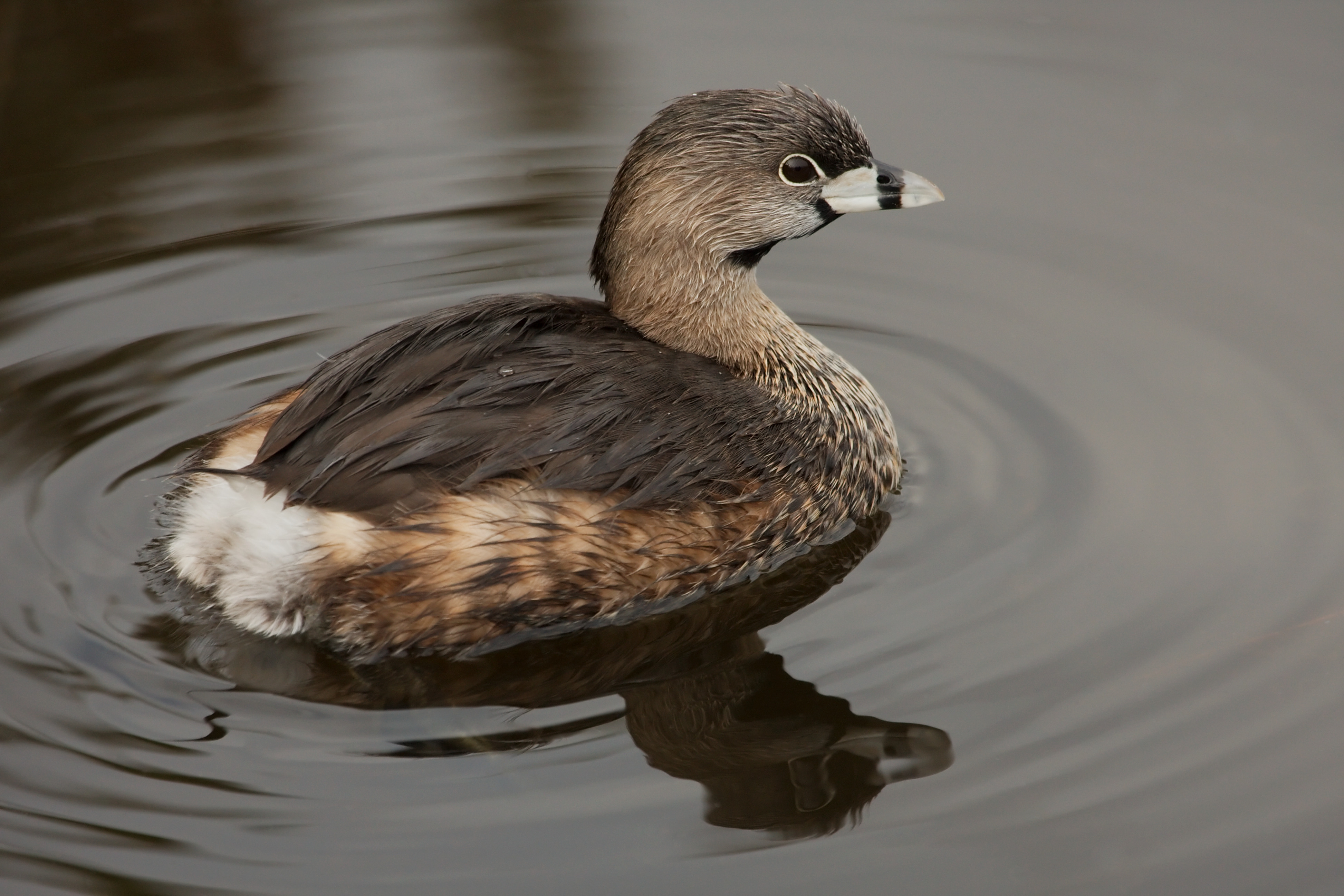 A Pied-billed Grebe (Podilymbus podiceps), Wakodahatchee Wetlands, Delray Beach, Florida (USA).